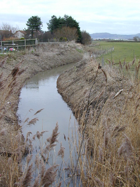 River Gele. Abergele got its name because of this murky ditch. Looking east from the road bridge.